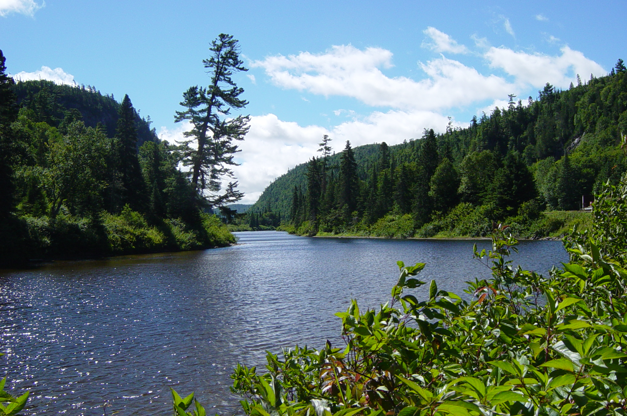 Photograph of the Agawa River as taken from the Agawa Canyon Wilderness Park in Ontarioen, Canadaen.